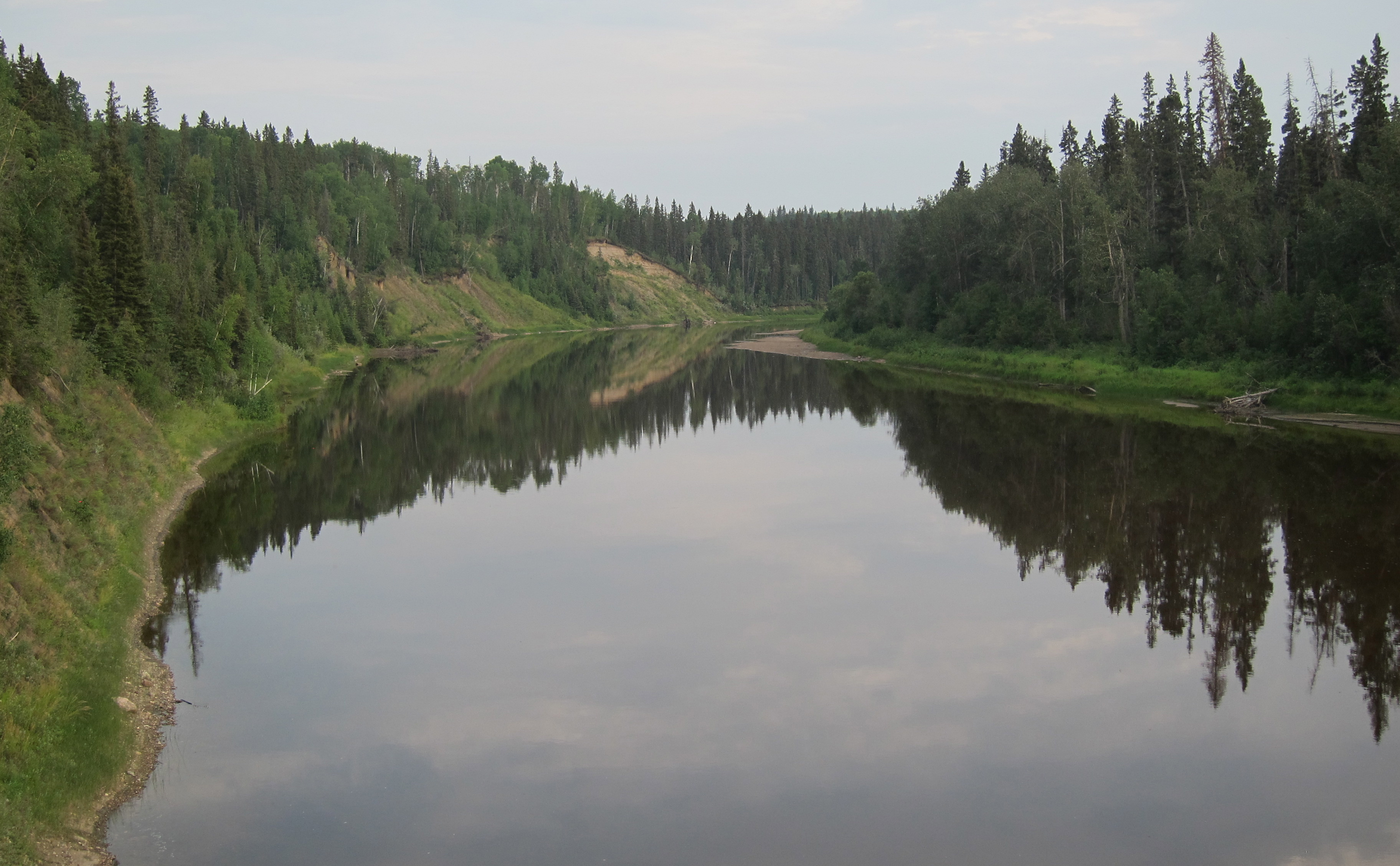 Chinchaga River at Hwy 58, Upper Hay district, Alberta.